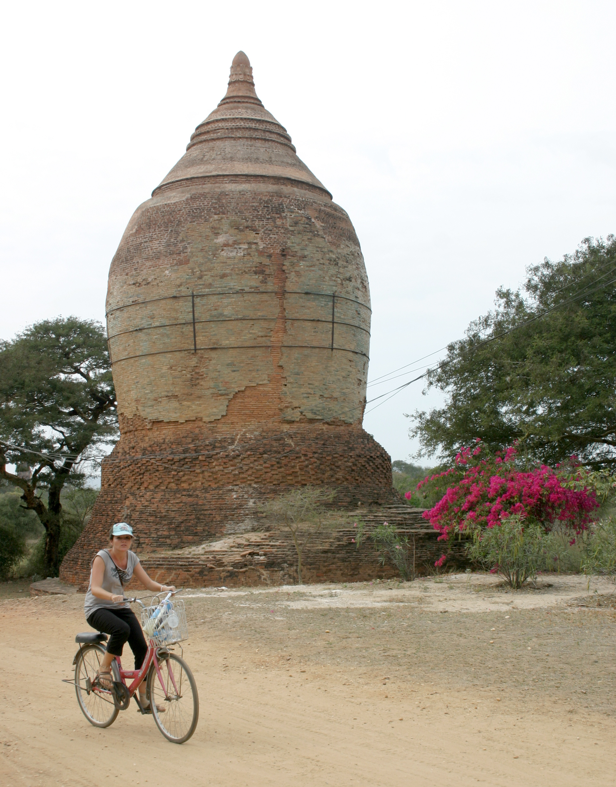 Ngakywenadaung pagoda in Bagan, Myanmar.